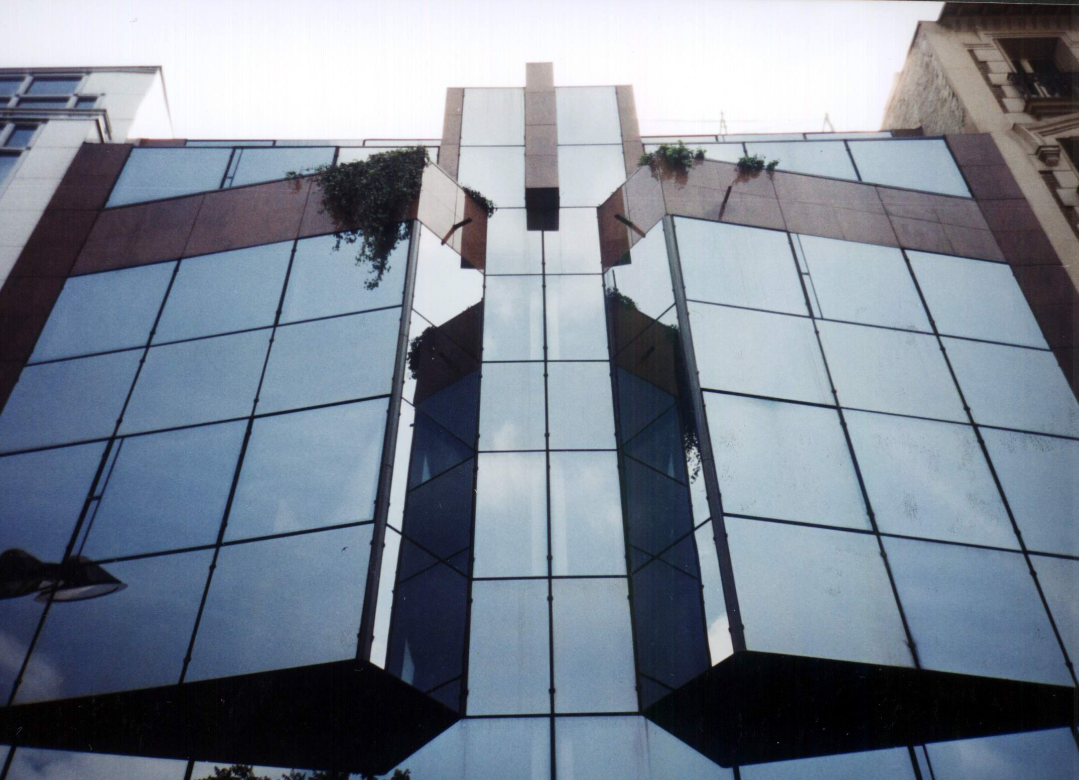 Standing offices building in Asnieres, near Paris, 1989